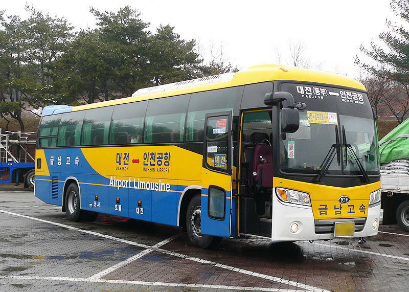 Kia New Grandbird, Sunshine Class (belonging to Geumnam Express Co., Ltd.)